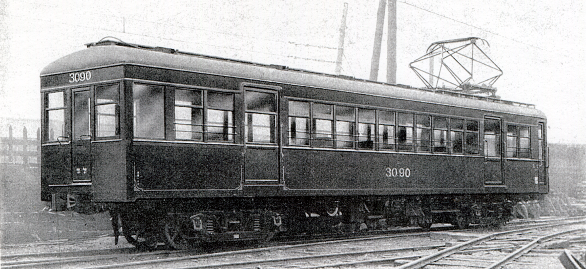 Aichi Electric Railway Type DEHA3090 EMU No.3090